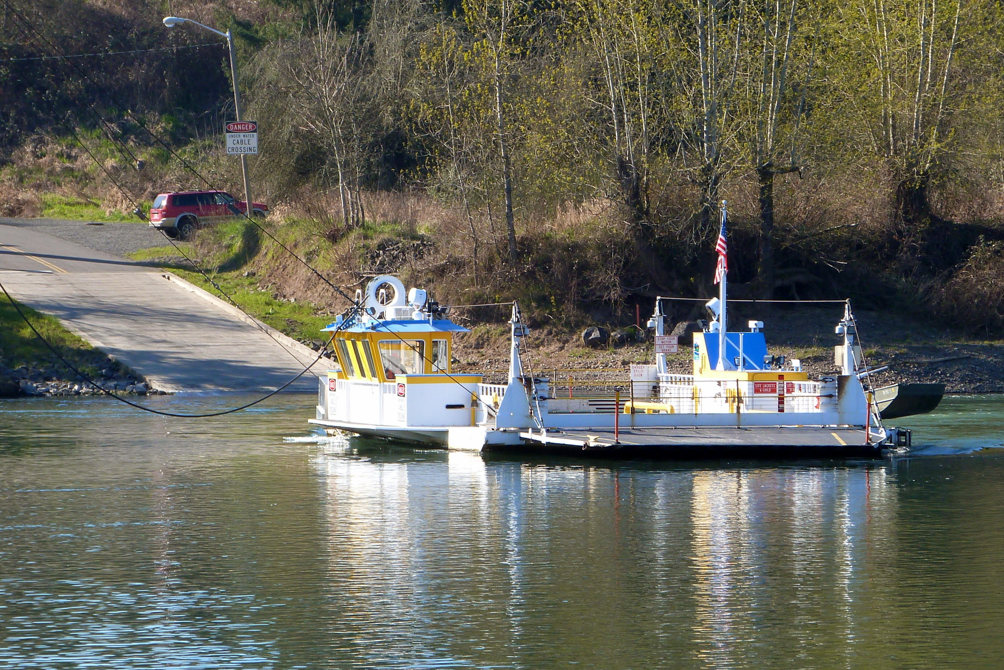 The Buena Vista Ferry crossing the Willamette River at Buena Vista, Oregon, United States. View is from the east bank in Marion County toward Polk County in the background.